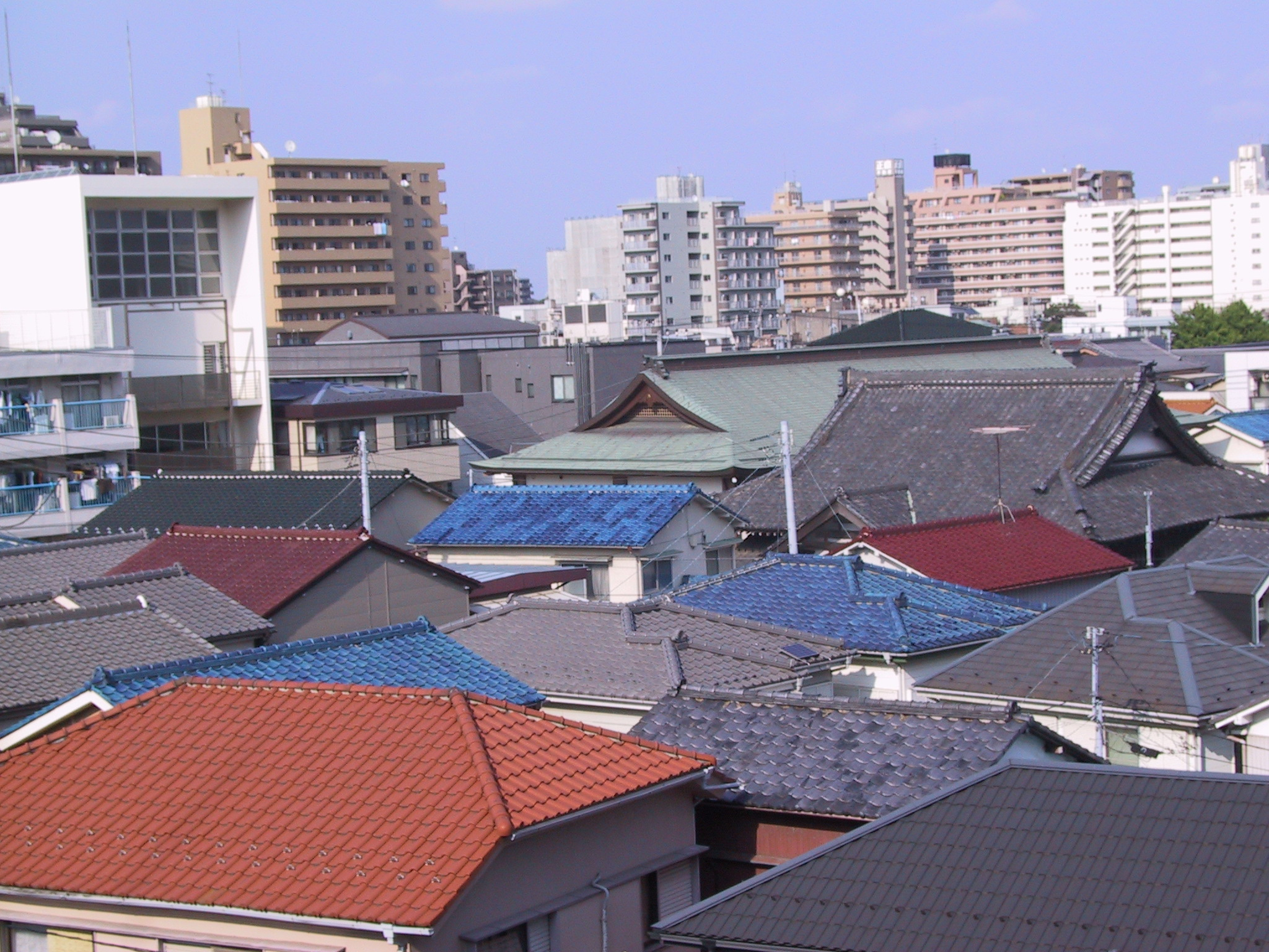 In between the apartments and offices of Tokyo you find clusters of single family homes.